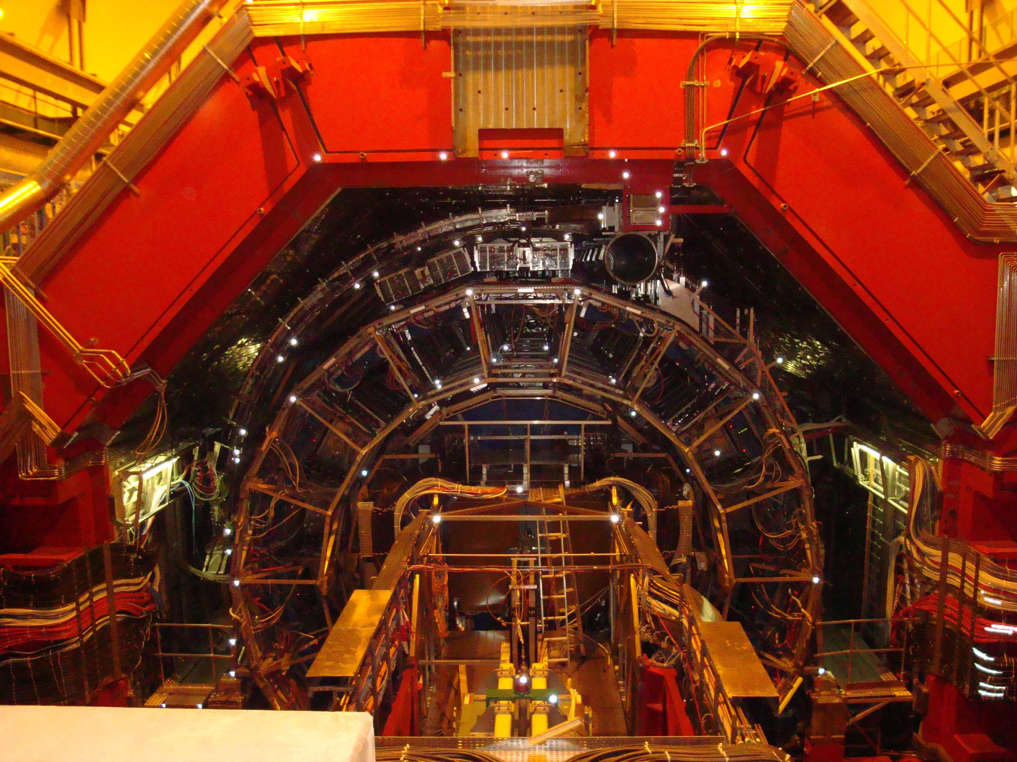 The ALICE magnet with the doors open.